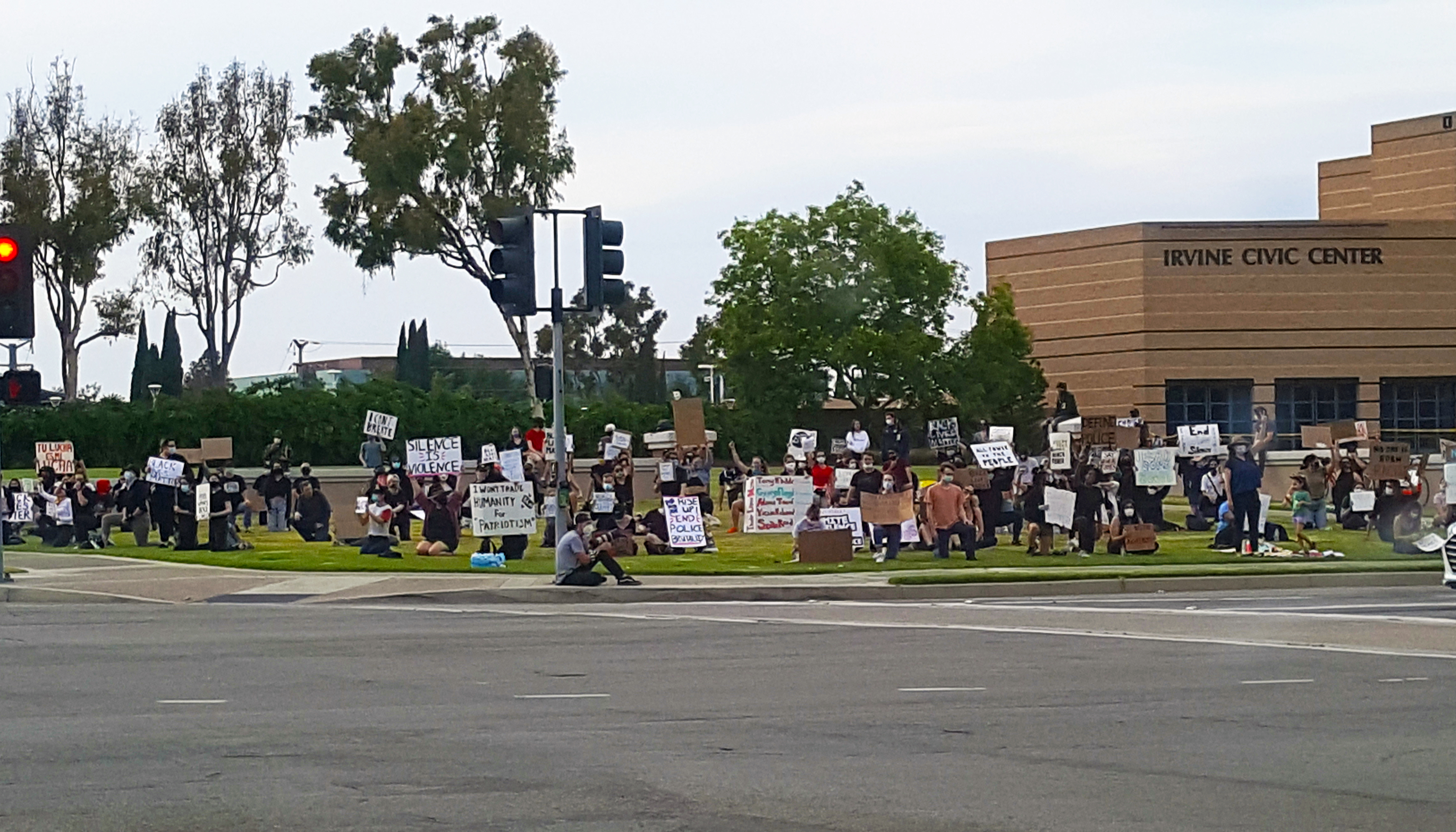 Irvine Civic Center Protesters protesting the murder of George Floyd and police brutality